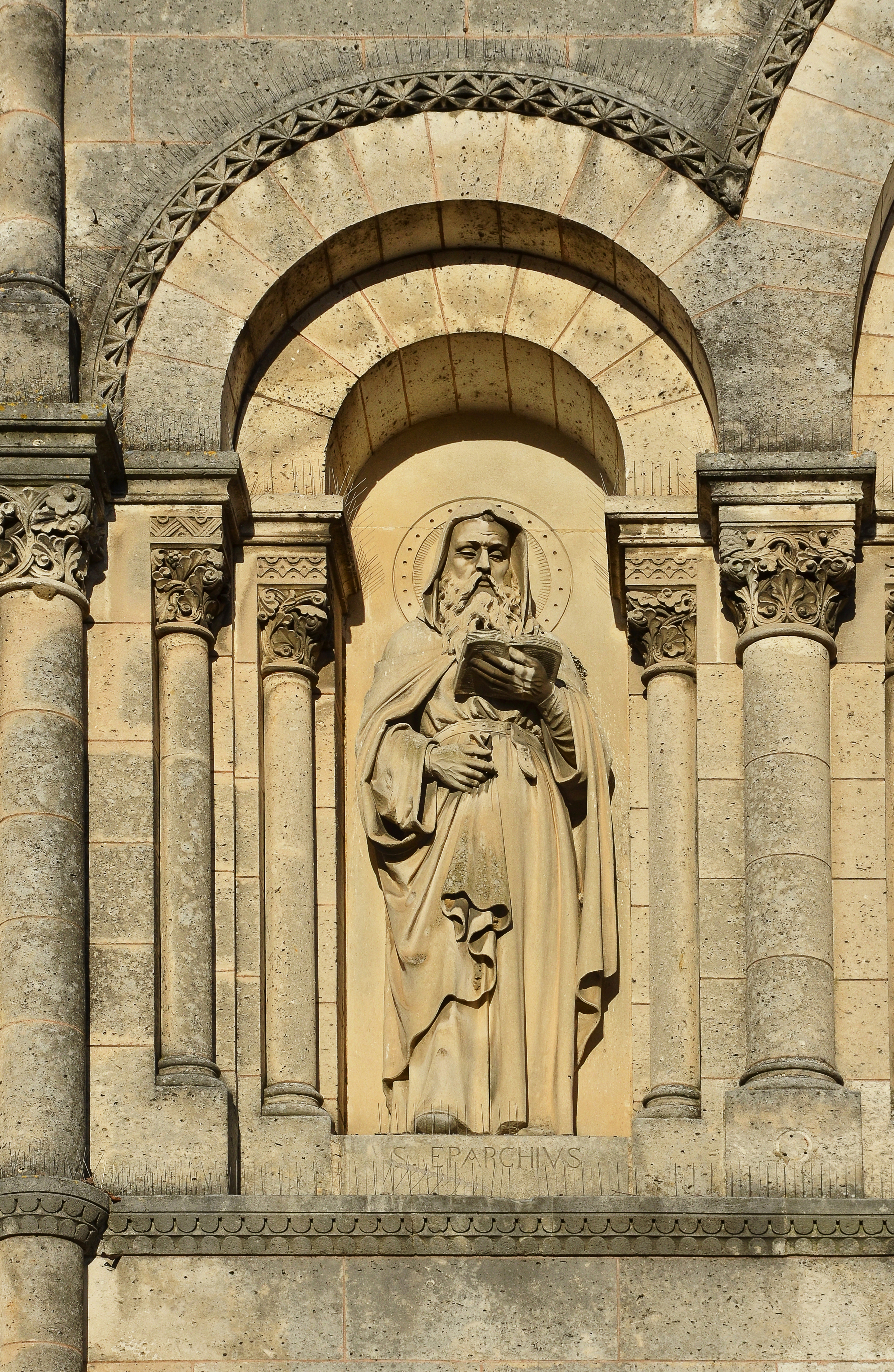 19th century statue of Saint Eparchius i.e. Saint-Cybard (504-581), facade of church of Saint-Cybard, Angoulême, France.